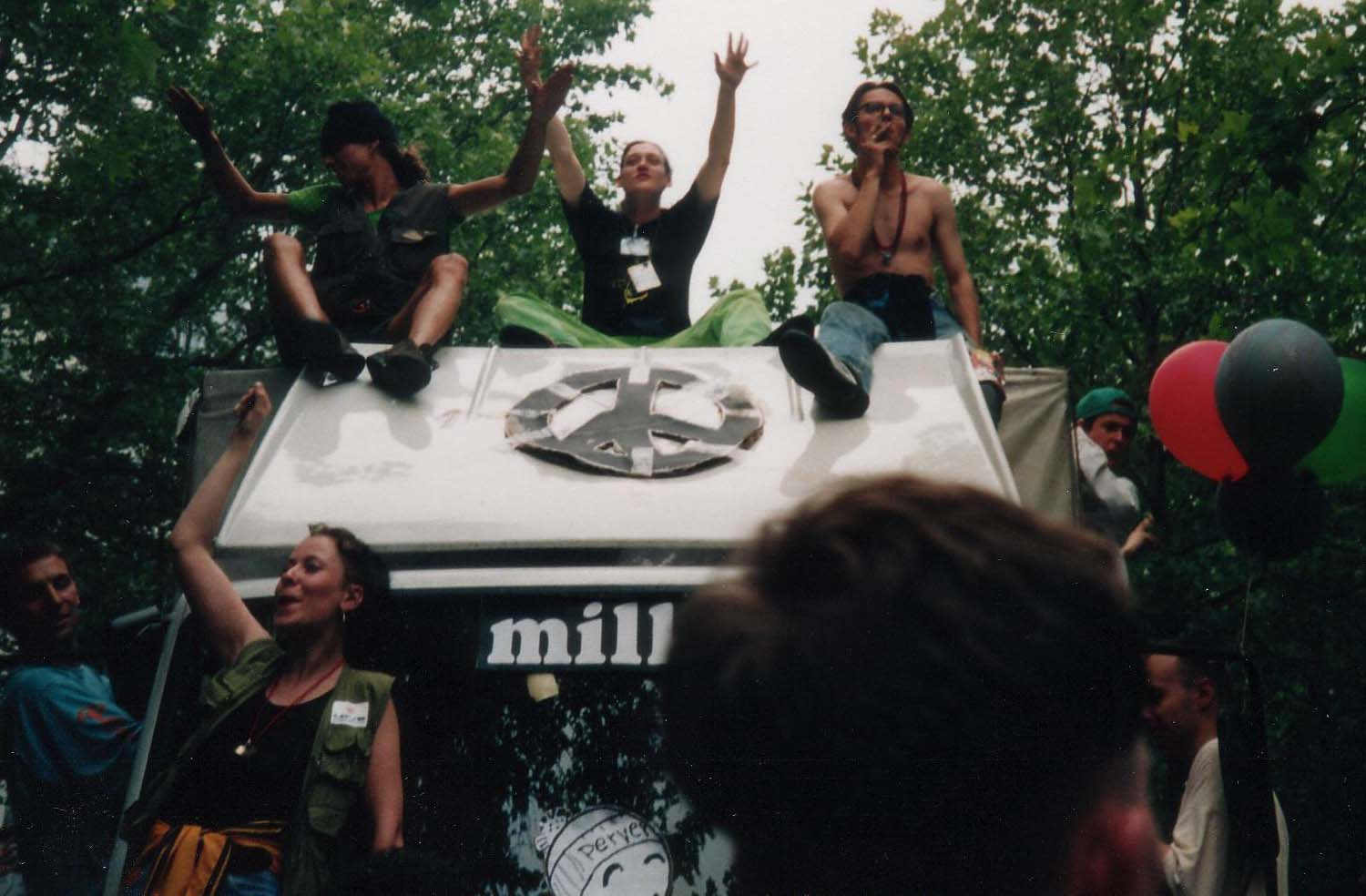 milk!-Truck at Loveparade